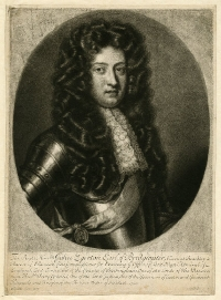 John Egerton, 3rd Earl of Bridgewater (1646-1701)